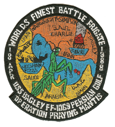 USS Bagley (FF-1069) - Combat Operation Patch